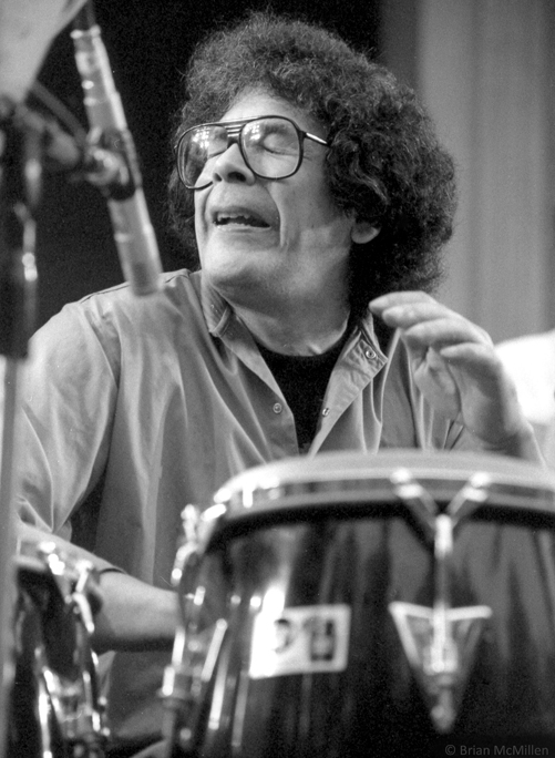 Ray Barretto at UC Berkeley Jazz Festival 1982. Photo: Brian McMillen /